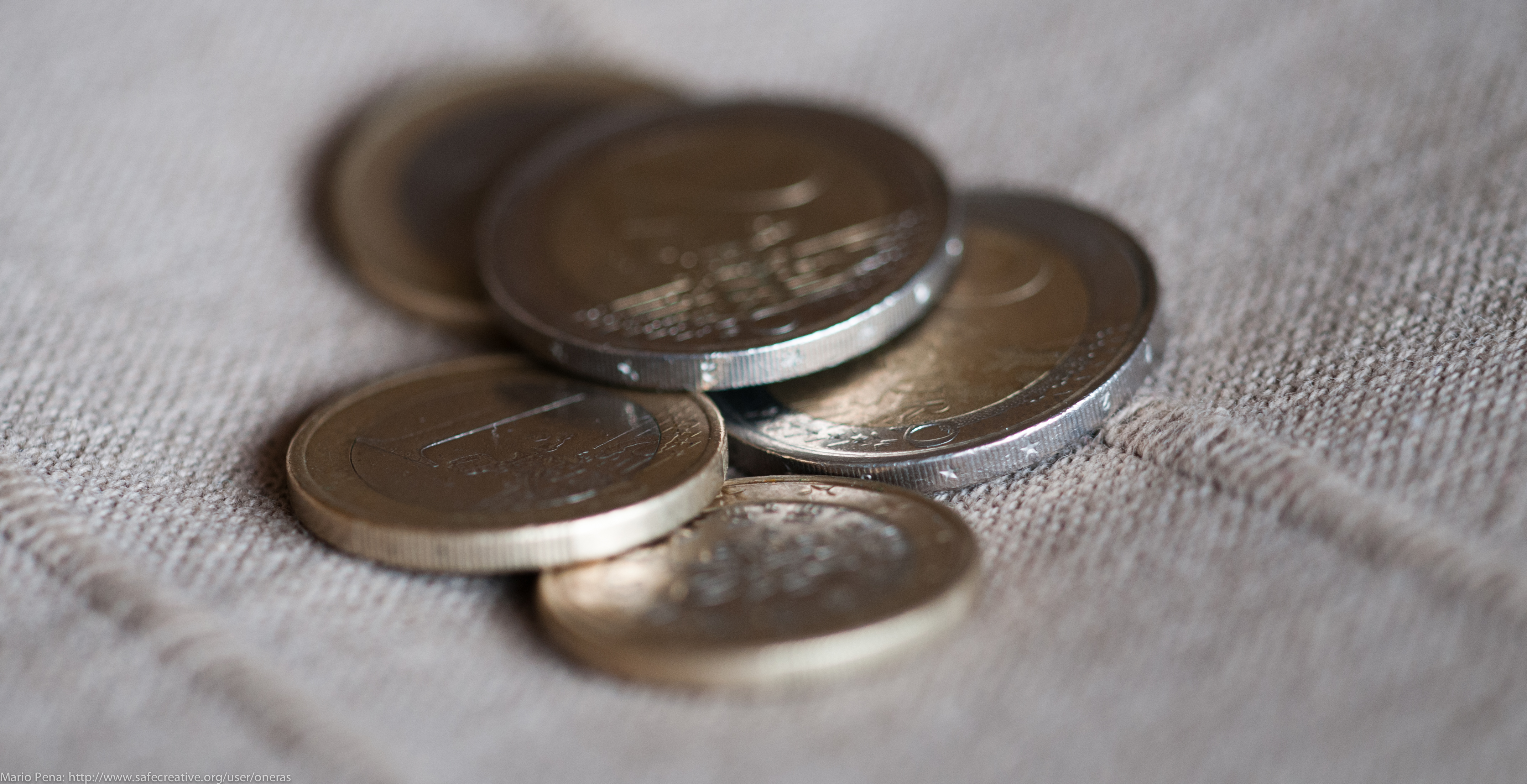 Euro coins.